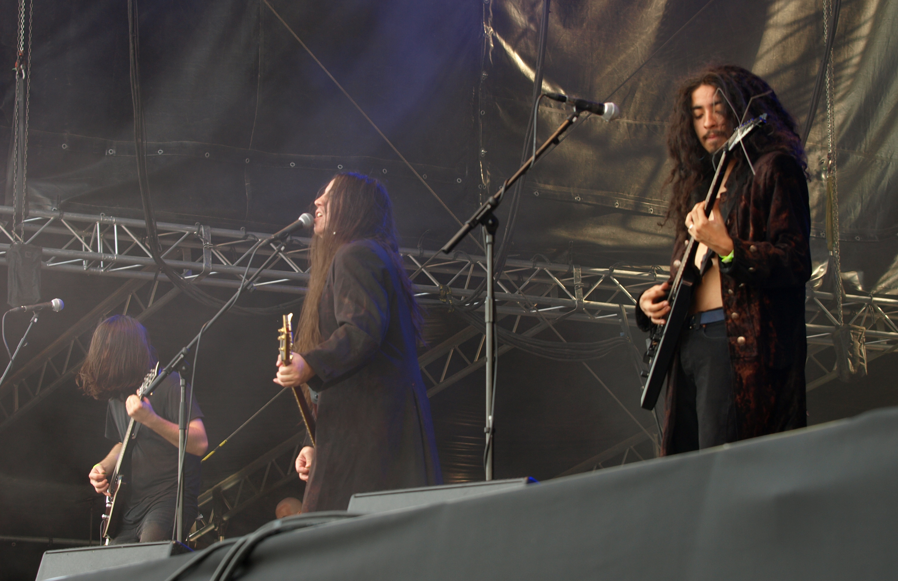 US black metal band Von at Tuska Open Air 2013